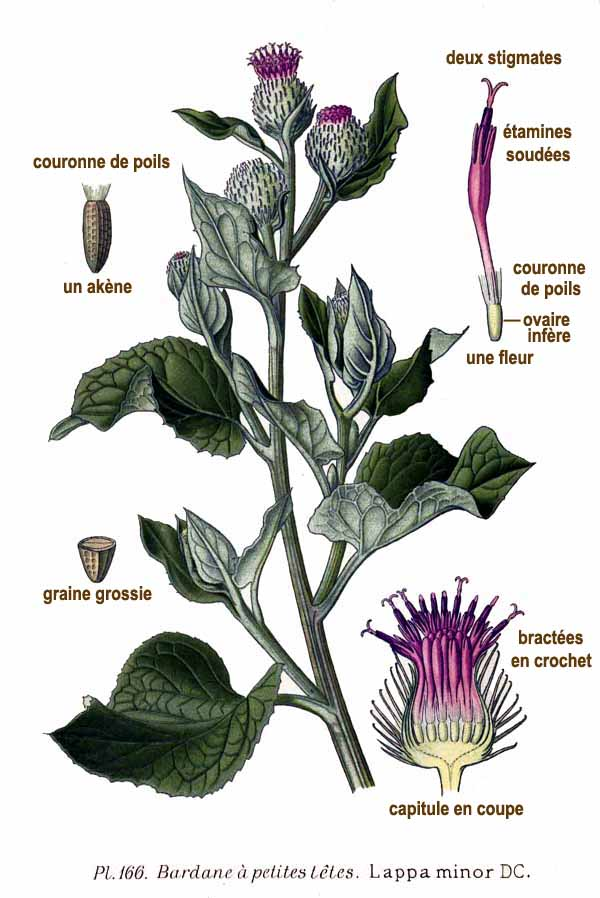 Arctium minus (Hill) Bernh., syn. Lappa minor DC